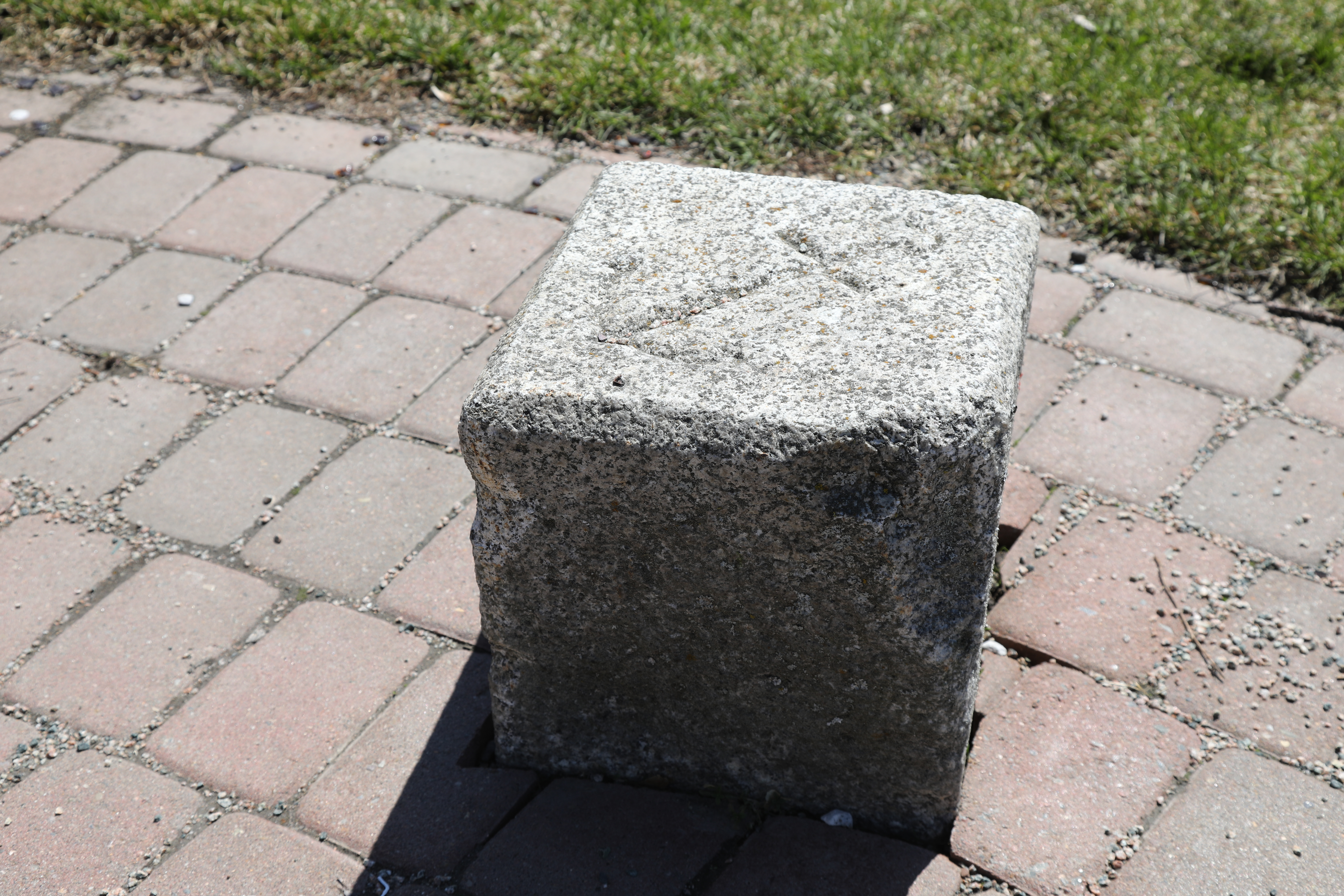 Wentworth Park is a Canadian urban park located in Sydney, part of Nova Scotia's Cape Breton Regional Municipality. The park incorporates the the Kiwanis Banshell, a small network of paved paths, as well as a Playground. The park centres around Wentworth Creek, which form a series of interconnected ponds running through the park. Much of the park is lawn, suitable for informal recreation, with many towering trees for shade. The park encompass 12 acres (4.9 ha) within the former city's boundaries. Granite Admiralty Marker - The British admiralty, in an effort to preserve the woods on its banks for possible used by the British Navy, had granite markers placed along its boundaries to mark the property. The markers, with anchors carved into the stone, indicating that the land belonged to the Admiralty, were placed at four locations. One was located on George Street, one off Argyle Street, not far from the present bandshell, another, now lost, at King's Road and Byng Avenue, and this one at the corner of present Crescent Street and King's Road.